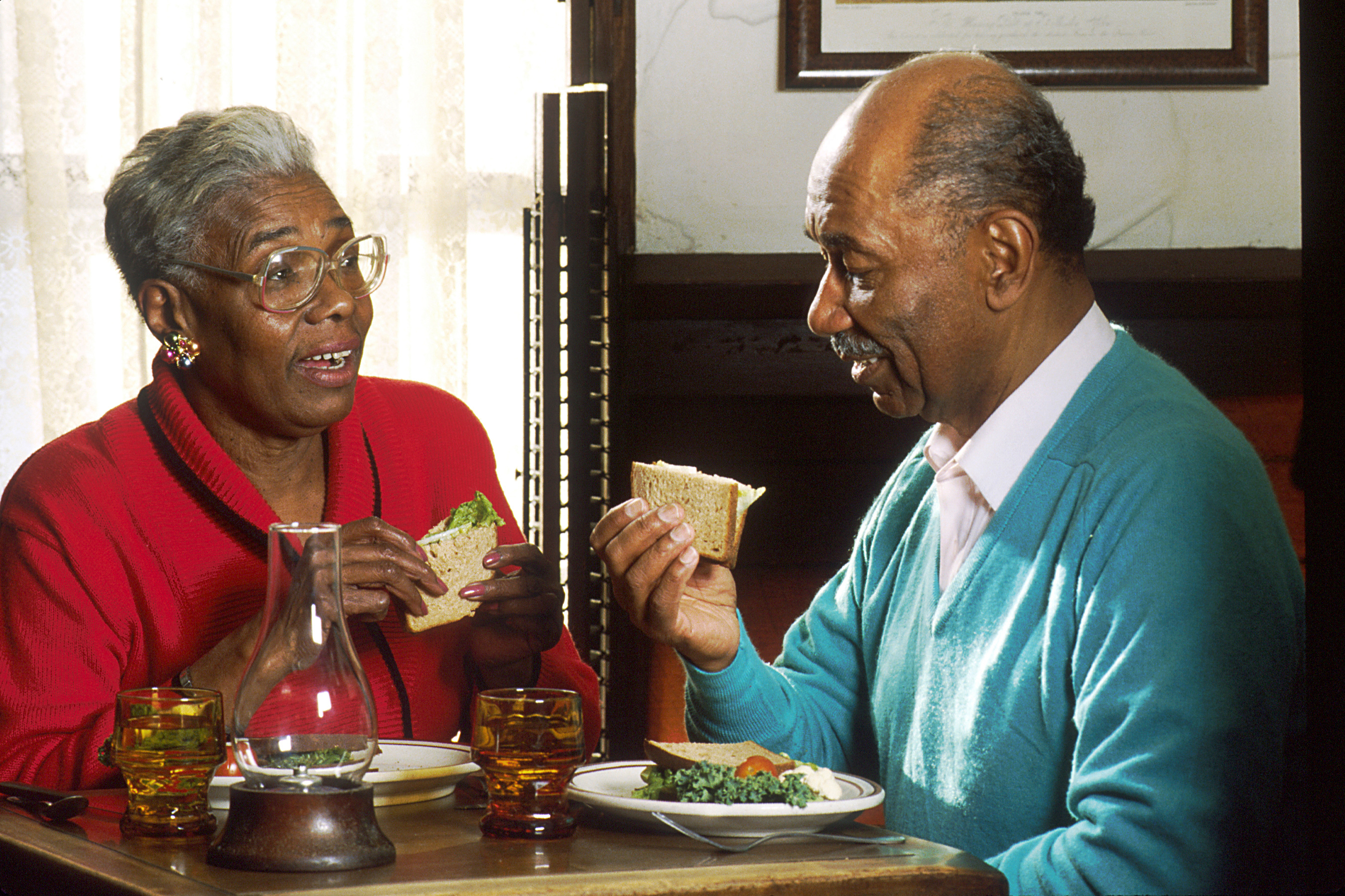 Title Couple Eating Lunch Description An African American man and woman eating lunch at a small restaurant table. Topics/Categories Food and Drink People -- Adult Type Color, Photo Source National Cancer Institute